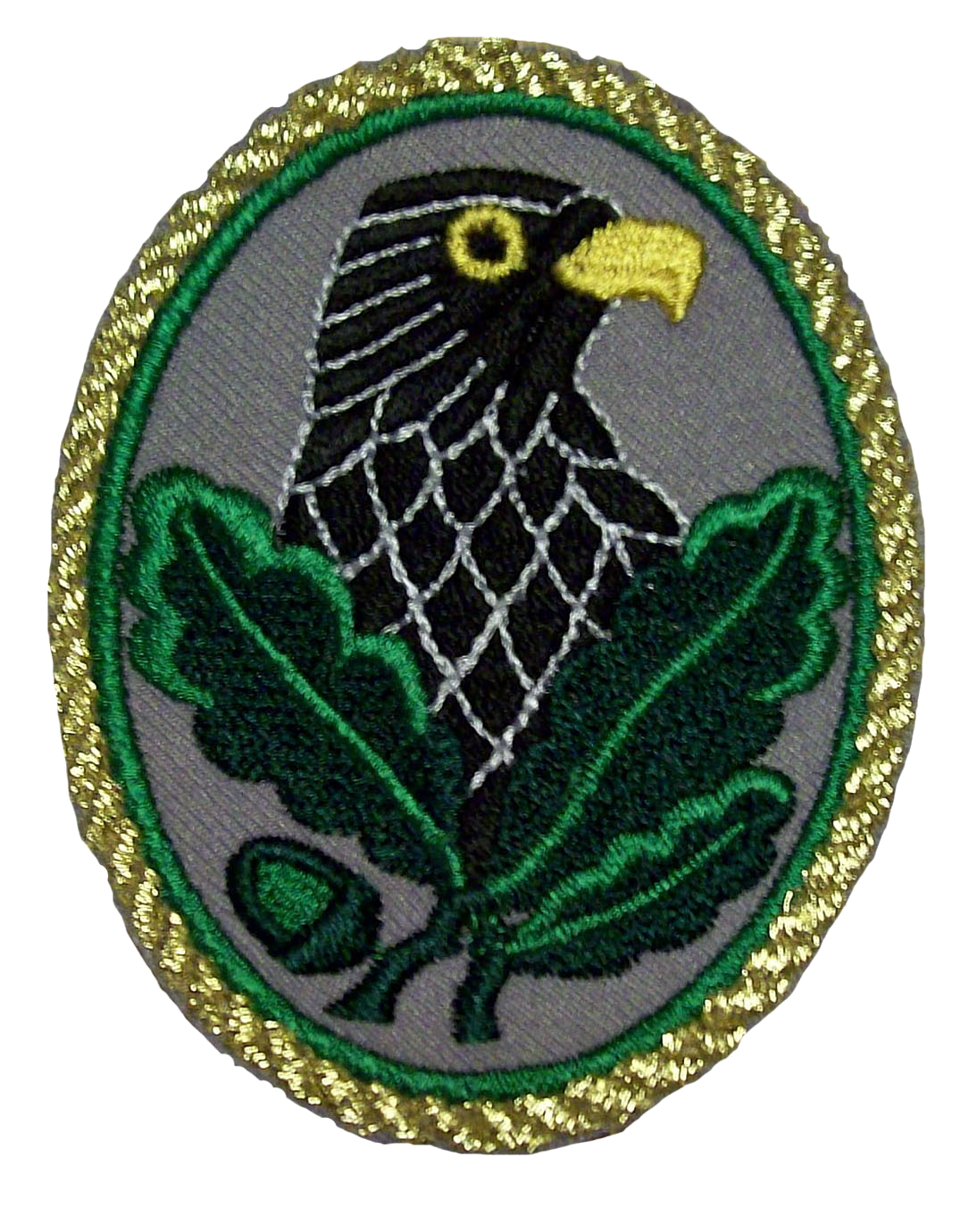 Scharfschützenabzeichen 3. Stufe (Gold)